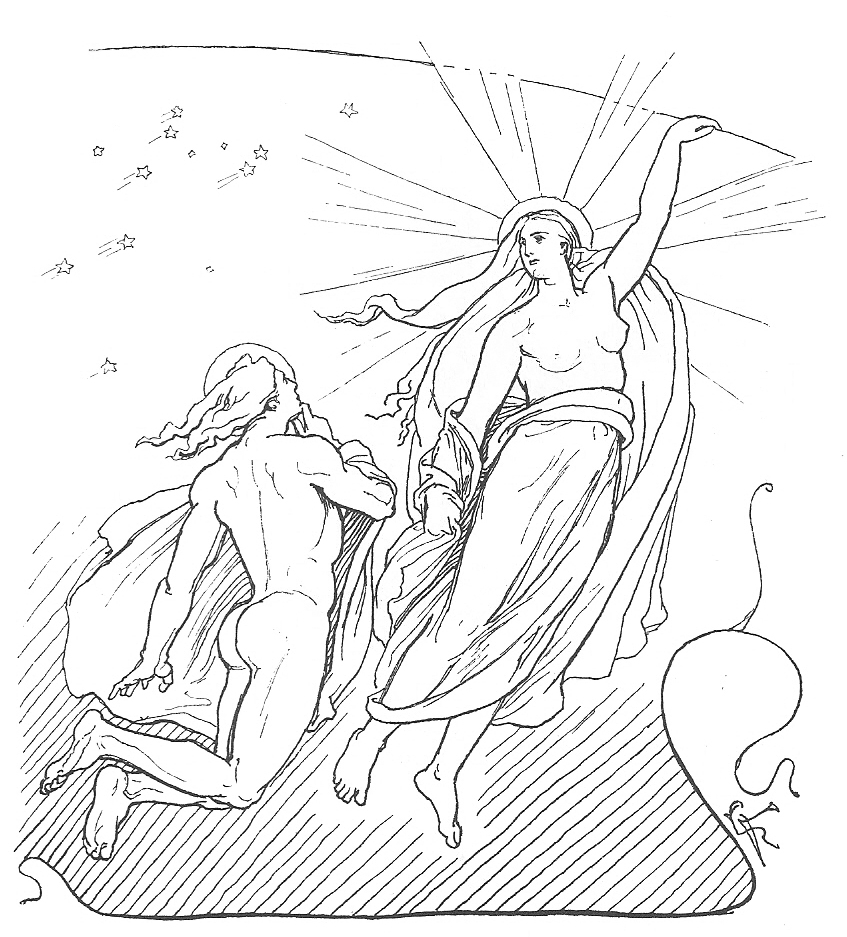 A depiction of the god Máni and the goddess Sól (1895) by Lorenz Frølich. Title not given in work.